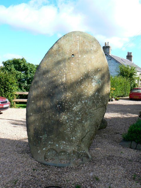 The standing stone that isn't As you approach it, this looks very much like a curvaceous standing stone, but on closer examination it turns out to be metal. It is in fact one of the propeller blades of the White Star Line's RMS Oceanic, a sister ship to the Titanic. Launched at Harland and Wolf in Belfast in January 1899 she plied the North Atlantic for 14 years. Then, on the outbreak of the Great War, the Admiralty took her over and converted her into an armed merchant cruiser. Sadly, her Naval career lasted barely a fortnight. After a difference of opinion between her joint Merchant Navy and Royal Navy captains about the correct course to sail (joint captains; surely a recipe for disaster?) she ran aground on Hoevdi Grund, a reef off Foula Island in Shetland and sticking fast she was abandoned. A gale then blew up and when it had passed the Oceanic had vanished from view. The wreck lay undisturbed in the Shaalds of Foula for decades, protected by the vicious and supposedly undiveable waters of the Shaalds until Simon Martin and his colleague Alec Crawford of DeepTek based here at Kilburns, read of the Oceanic while visiting Shetland and decided to investigate her. Soon they set about recovering the tons of valuable metals lying on the sea bed in some of the most difficult wreck-diving conditions that can be encountered. The propeller blades are here in Fife and the ship's bell is in the Shetland Museum in Lerwick.